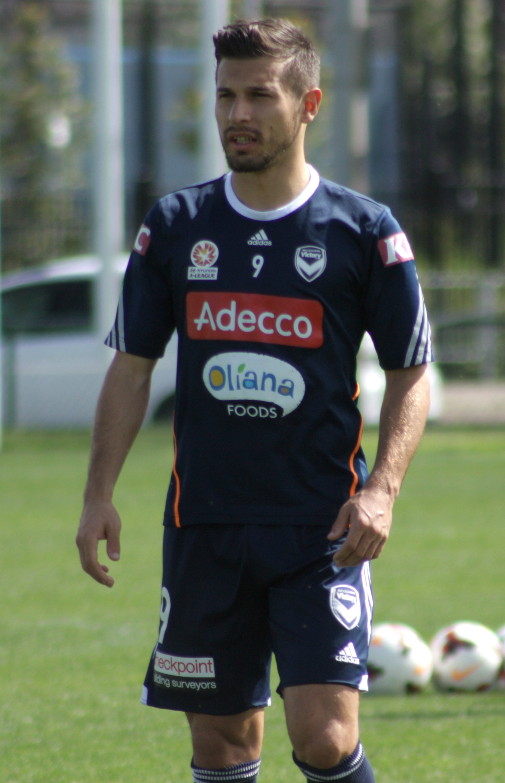 Kosta Barbarousas training for Melbourne Victory